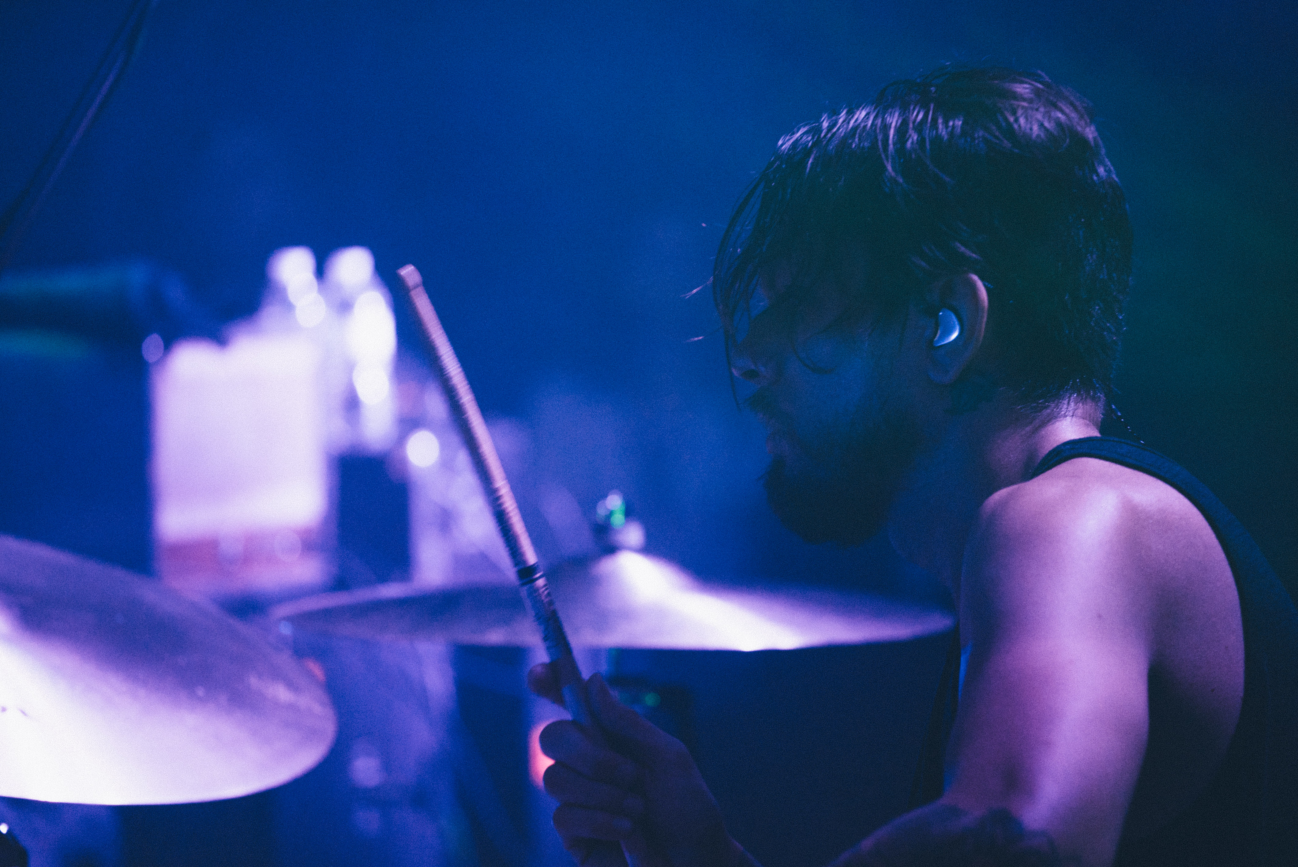 Chris Hornbrook on tour with Senses Fail in 2015.